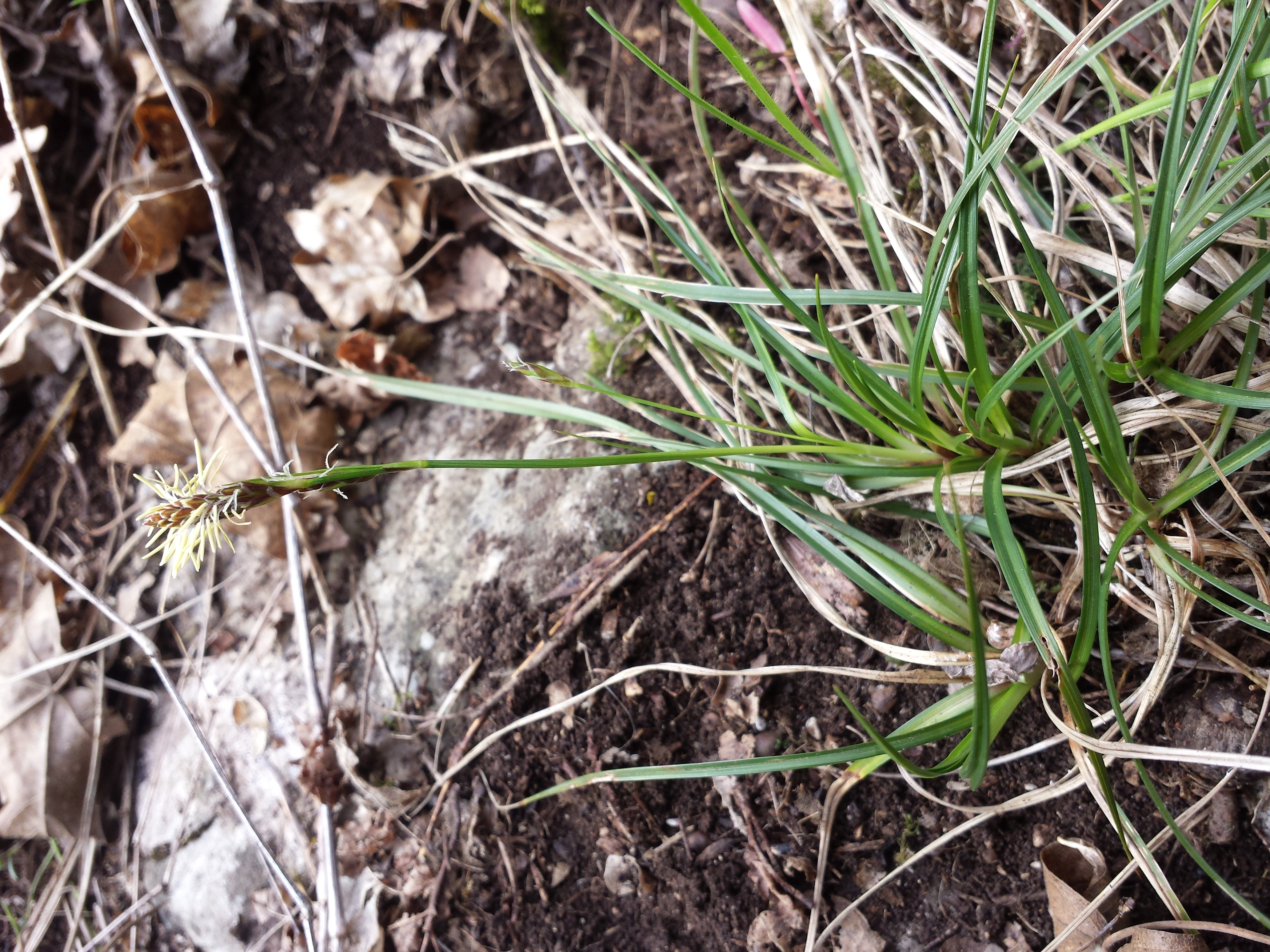 Habitus Taxonym: Carex halleriana ss Fischer et al. EfÖLS 2008 ISBN 978-3-85474-187-9 Location: Winzendorf, district Wiener Neustadt-Land, Lower Austria - ca. 500 m a.s.l. Habitat: forest of Pinus nigra